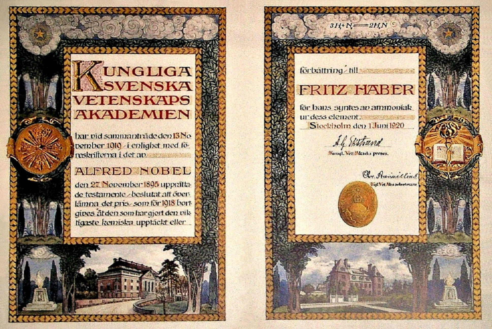 Photo of copy of the Nobel Prize diploma in Chemistry awarded to Fritz Haber in 1918. The copy is part of the exhibition in Wroclaw University Museum